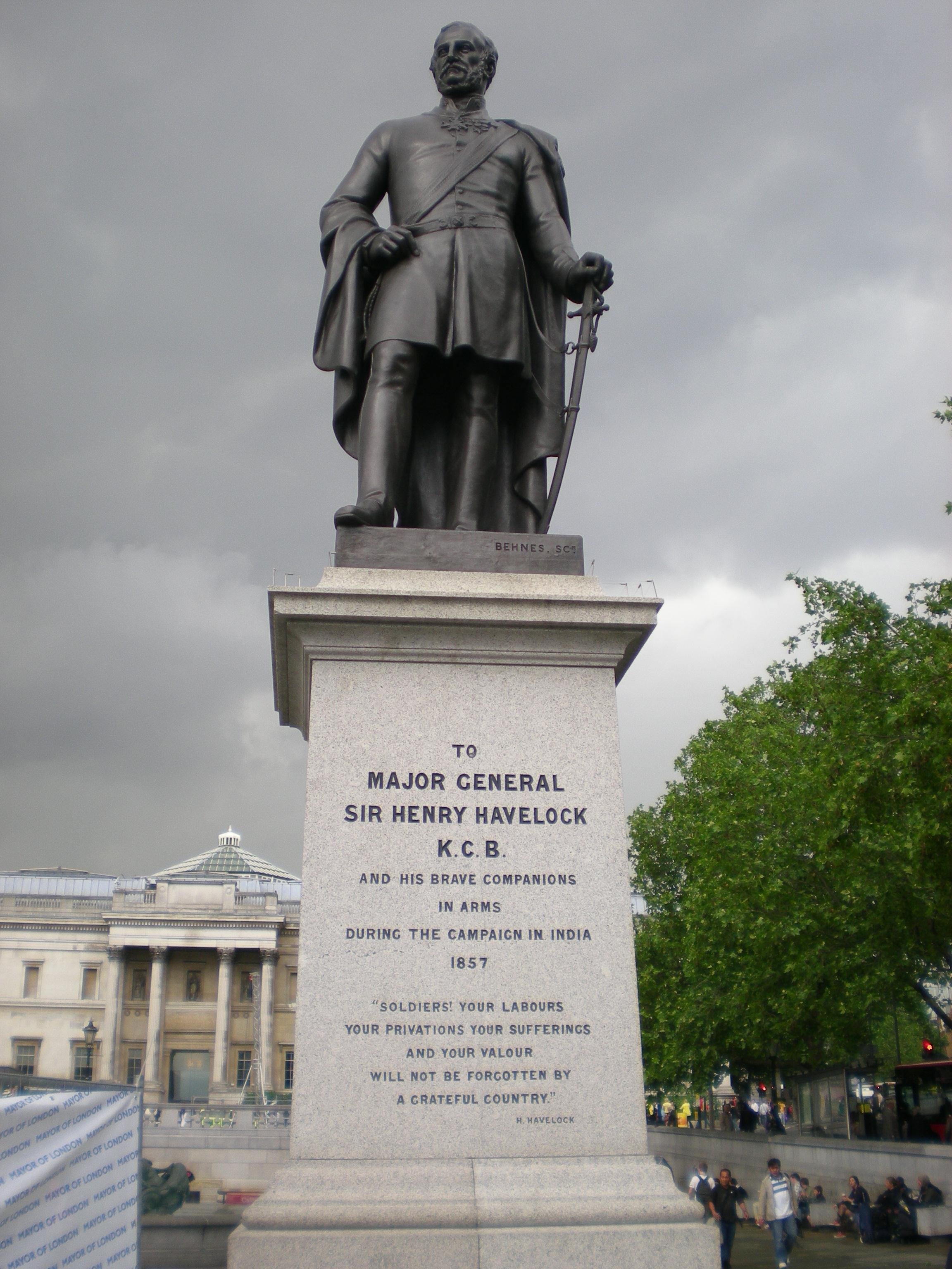 Major General Sir Henry Havelock Statue, Trafalgar Square, London